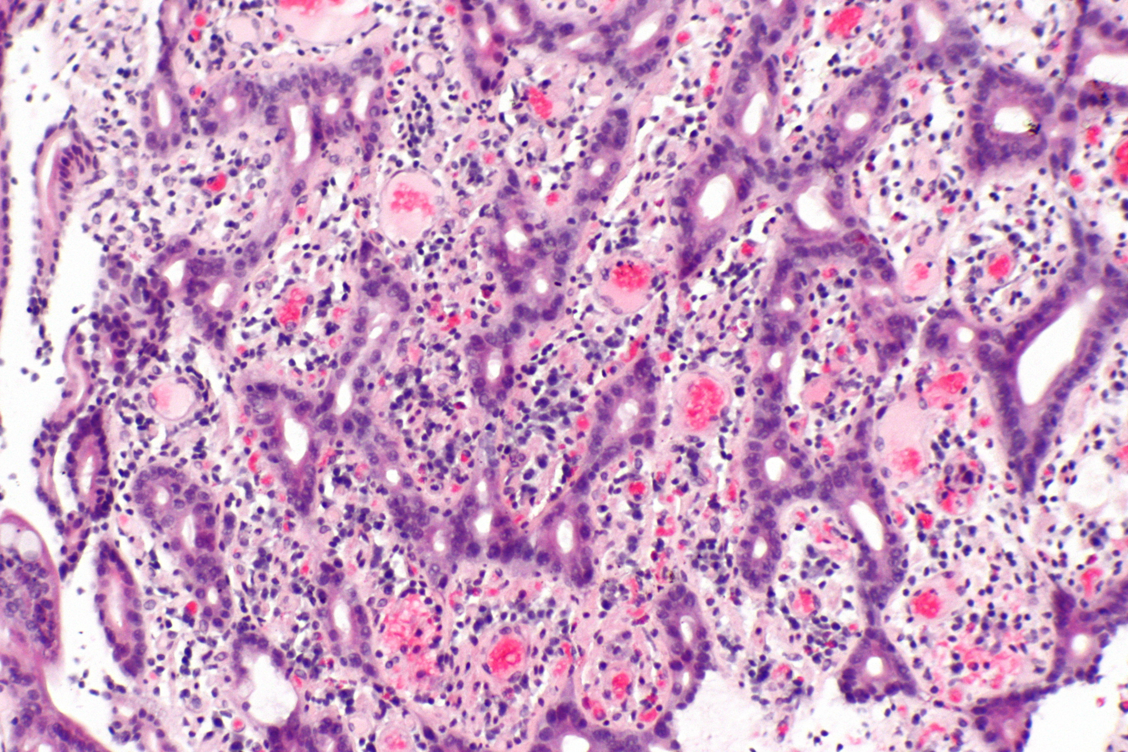 Micrograph of well-differentiated periampullary adenocarcinoma or periampullary foveolar type dysplasia. Duodenal biopsy. Related images PAA - low mag. PAA - intermed. mag. PAA - high mag. PAA - high mag. FD - intermed. mag. FD - high mag. FD - high mag.